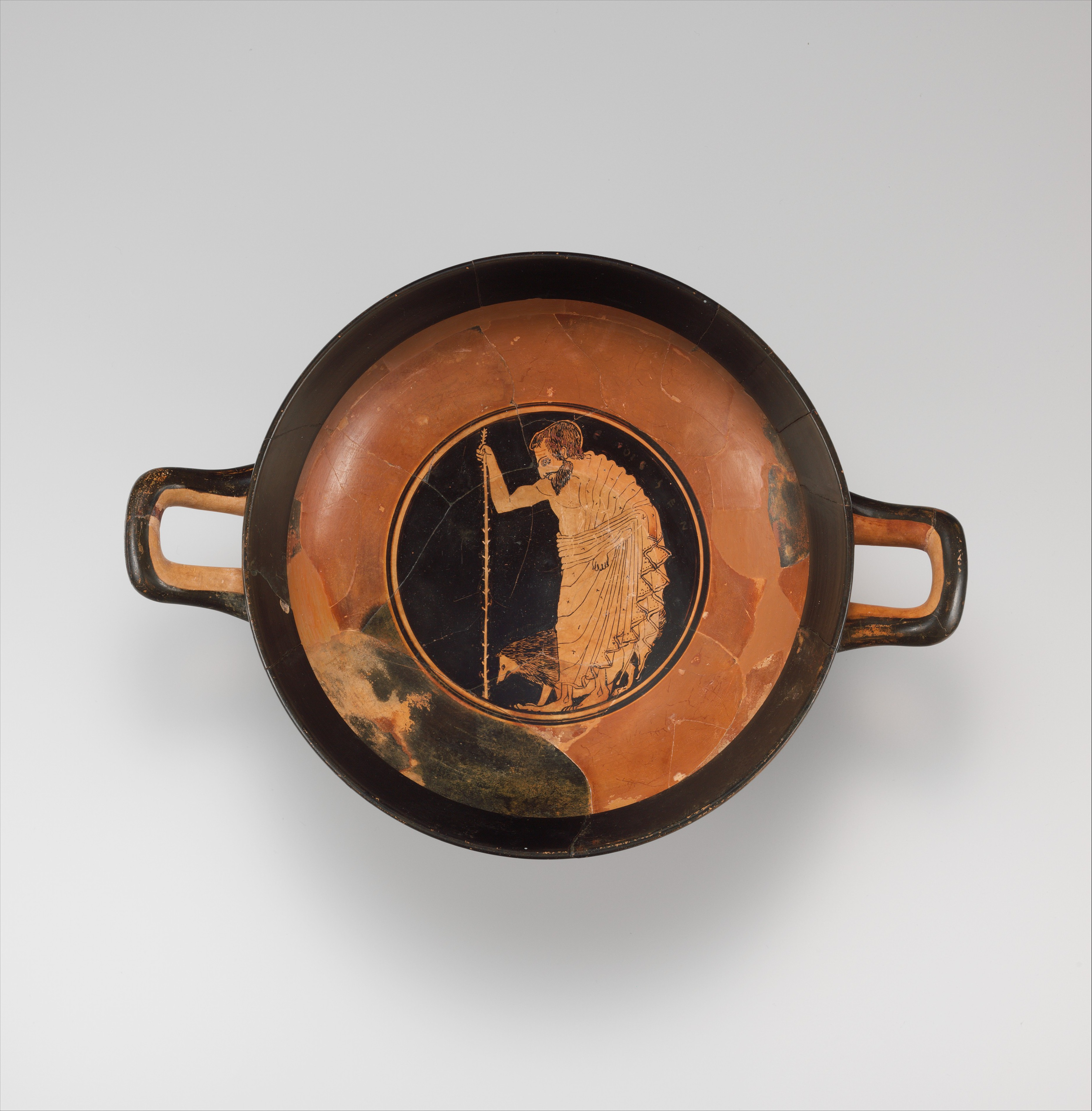 Greek, Attic; Kylix; Vases